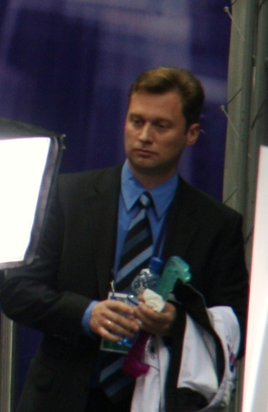 Viktor Petrenko at the 2010 Cup of Russia